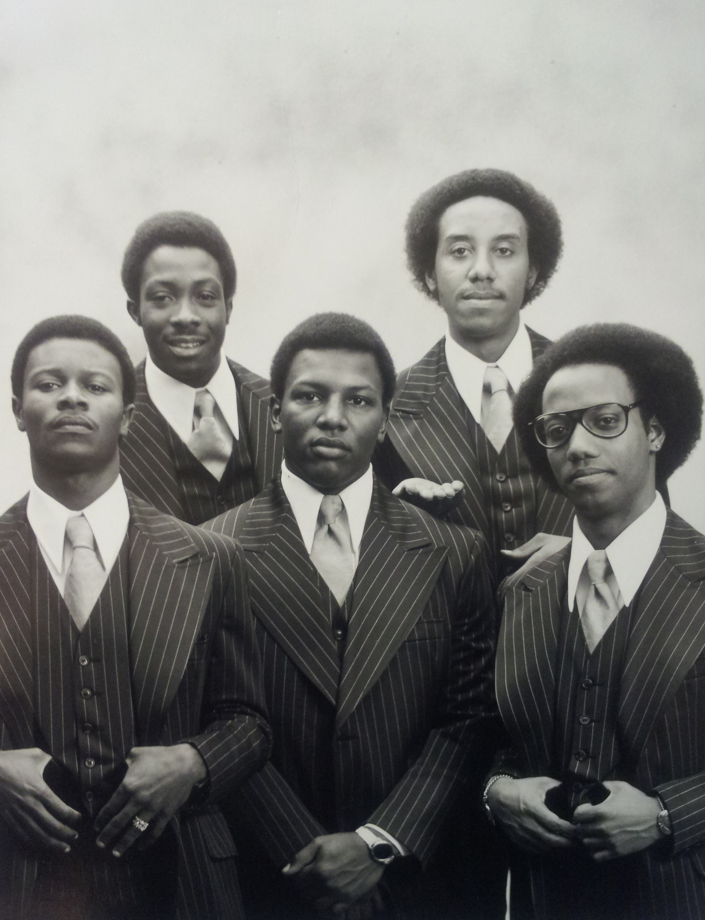 The Billion Dollar Band Black and White Photo